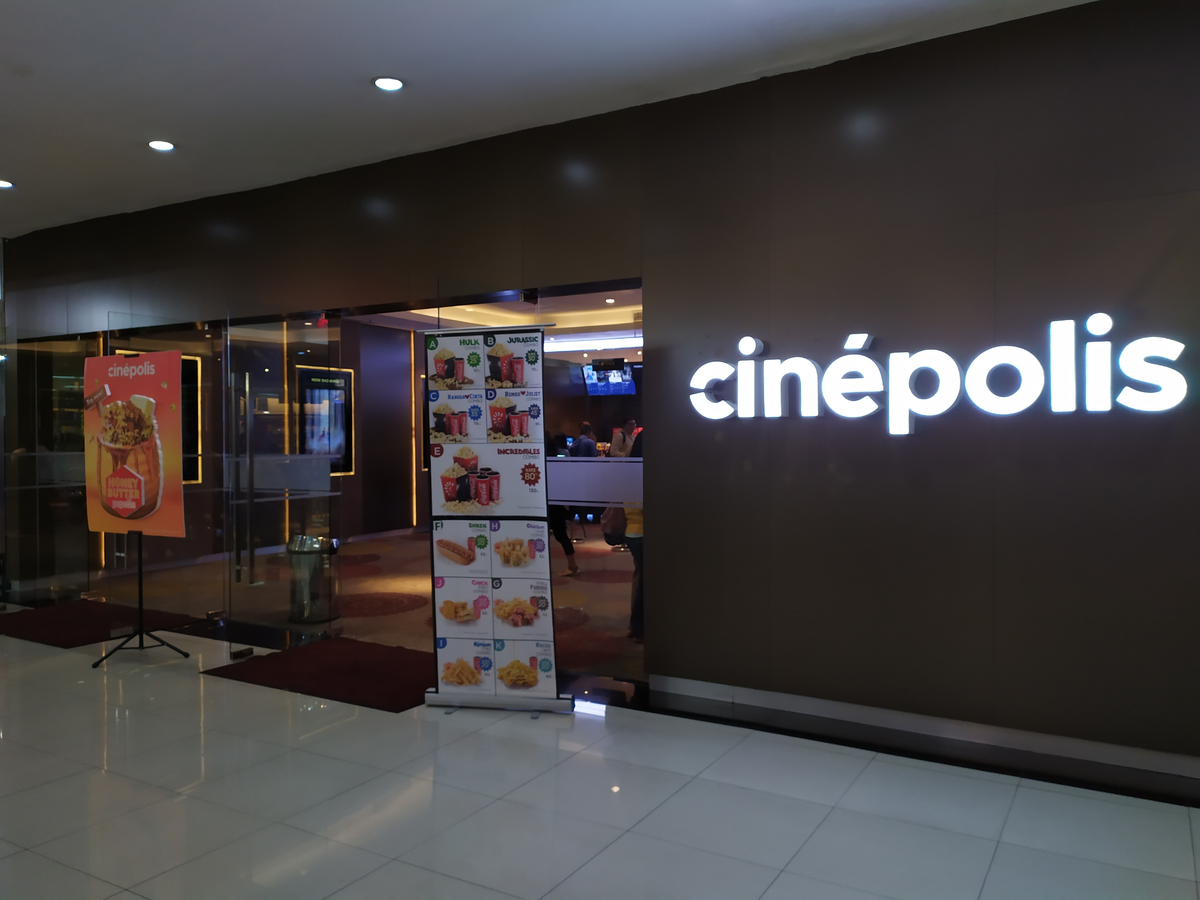 The entrance of the Cinepolis branch in Istana Plaza, Bandung, West Java, Indonesia.